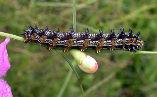 Common Buckeye, Junonia coenia caterpillar feeding on Gerardia purpurea. Location: Orange County, North Carolina, United States